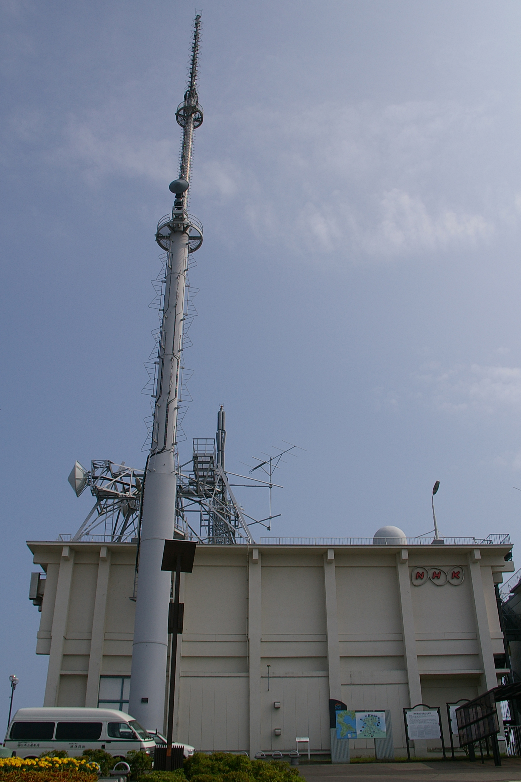 NHK Hakodateyama Television Transmitter Station on the Mount Hakodate in Hakodate City, Hokkaido, Japan